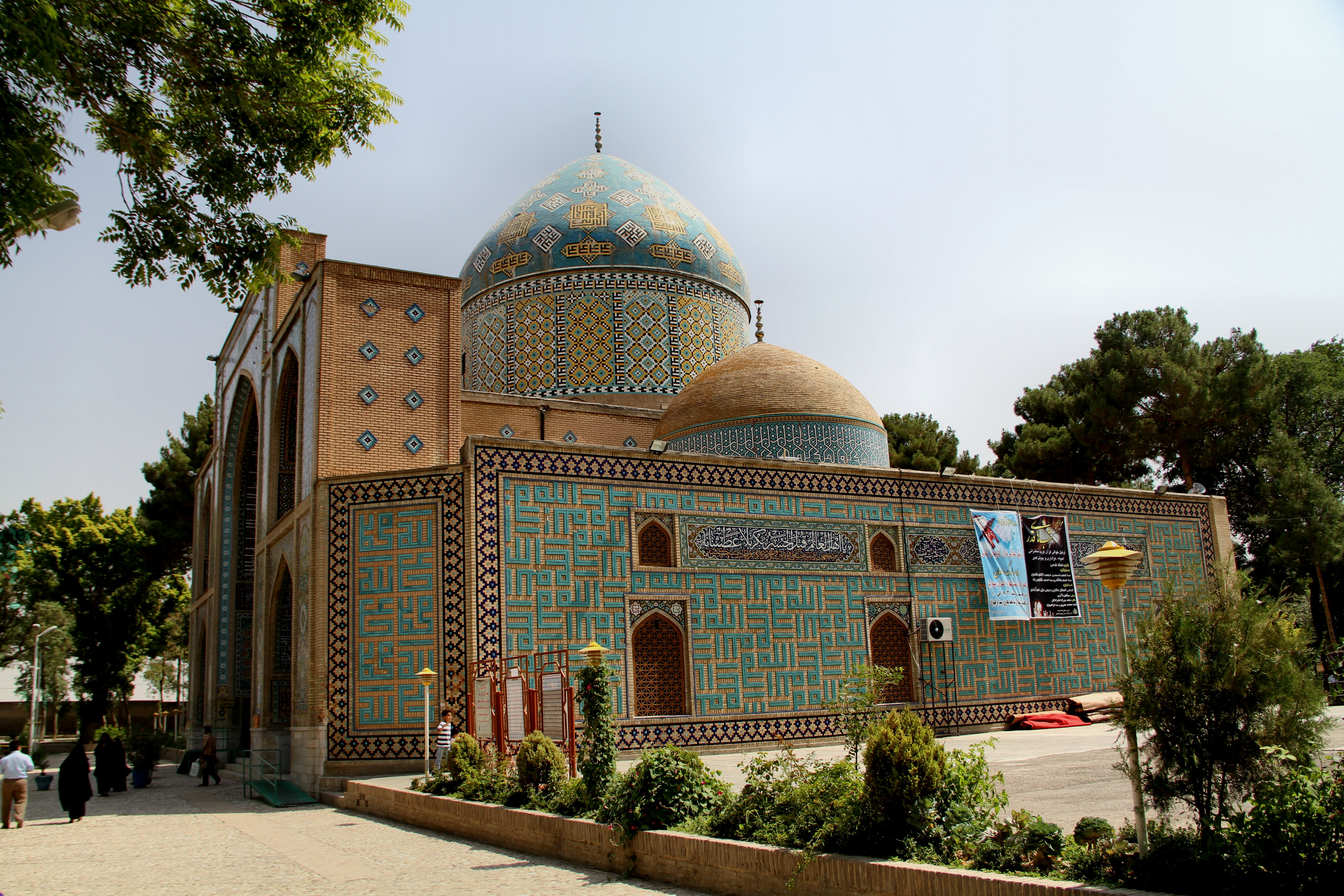 Imamzadeh at the tomb of Omar Khayyam. Taken at Neyshapour, Iran, August 2011